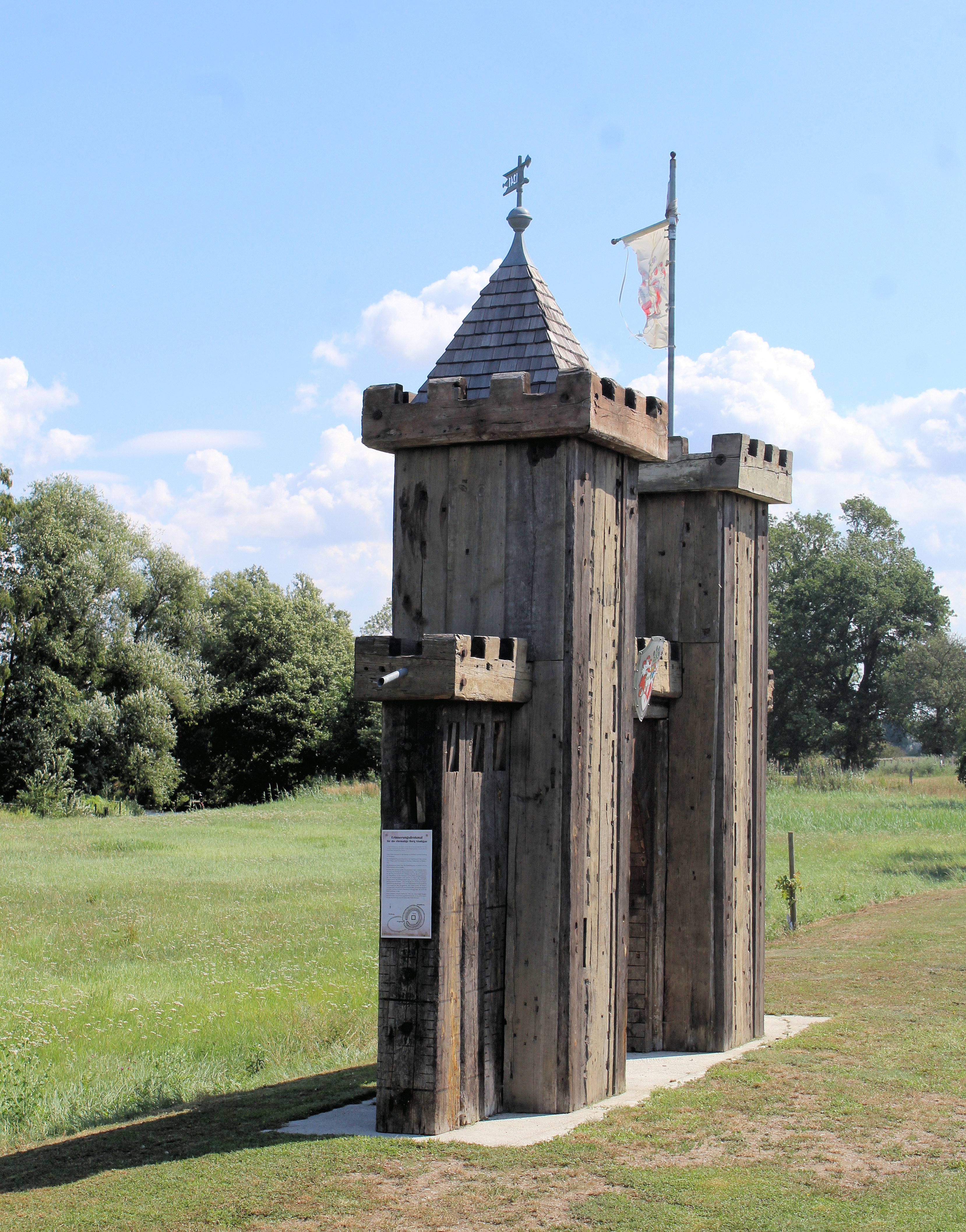 Gladigau (Osterburg), castle model